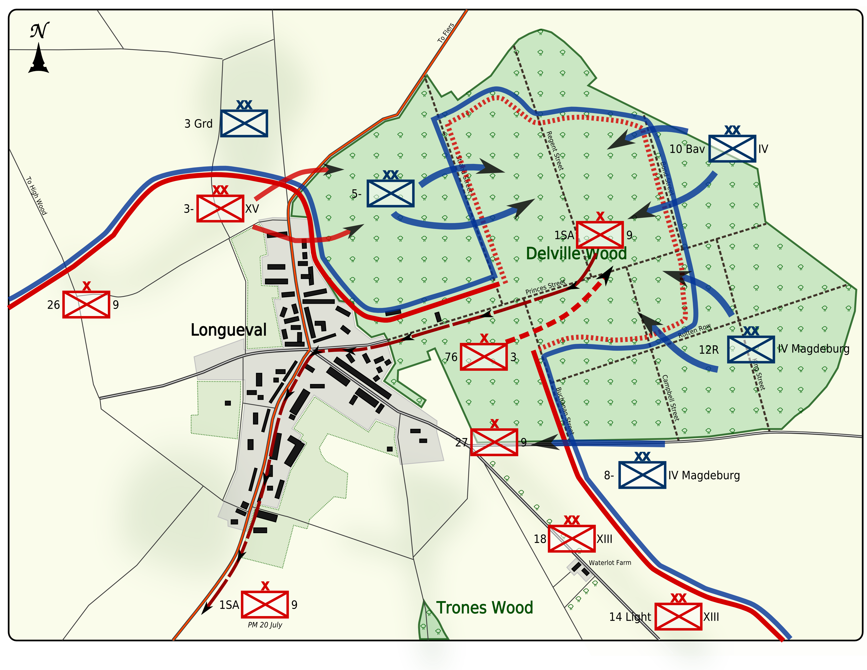 Delville Wood Position of forces 18 to 20 July 1916